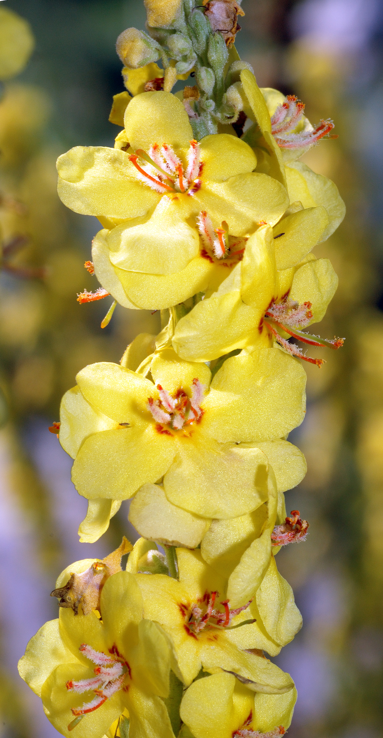 This image shows the Denseflower Mullein (Verbascum densiflorum). It has been taken at the island Mainau.